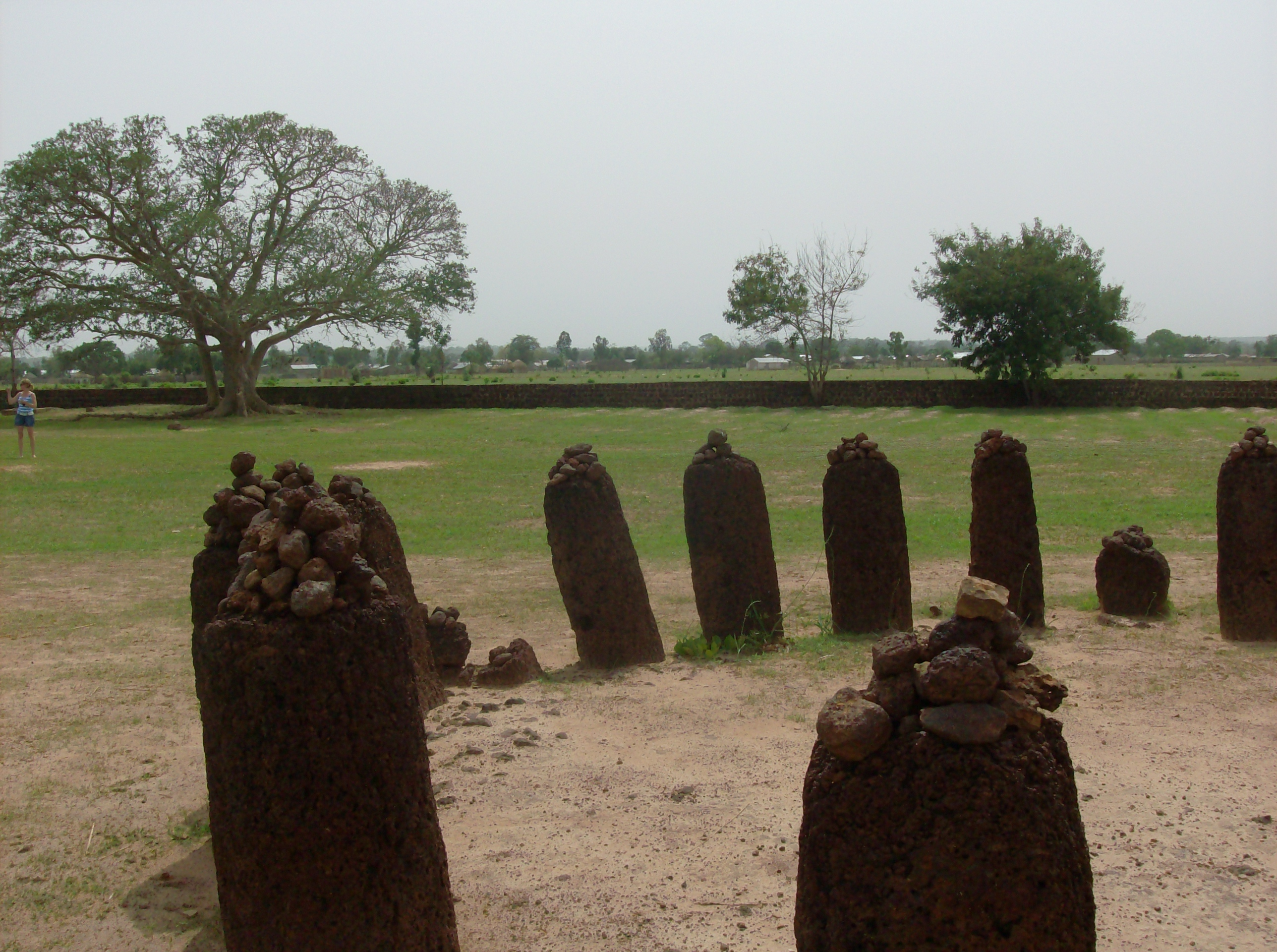 Stone Circles of Senegambia Date of Inscription: 2006 Criteria: (i)(iii) Property : 9.8500 ha Buffer zone: 110.0500 ha Central River Division - Gambia, Kaolack Region - Senegal N13 41 28 W15 31 21 Ref: 1226 Brief Description [Stone Circles of Senegambia] The site consists of four large groups of stone circles that represent an extraordinary concentration of over 1,000 monuments in a band 100 km wide along some 350 km of the River Gambia. The four groups, Sine Ngayène, Wanar, Wassu and Kerbatch, cover 93 stone circles and numerous tumuli, burial mounds, some of which have been excavated to reveal material that suggest dates between 3rd century BC and 16th century AD. Together the stone circles of laterite pillars and their associated burial mounds present a vast sacred landscape created over more than 1,500 years. It reflects a prosperous, highly organized and lasting society. Statement of Significance Criterion (i): The finely worked individual stones display precise and skilful stone working practices and contribute to the imposing order and grandeur of the overall stone circle complexes. Criterion (iii): The nominated stone circles, represent the wider megalithic zone, in which the survival of so many circles is a unique manifestation of construction and funerary practices which persisted for over a millennia and a half across a large sweep of landscape, and reflects a sophisticated and productive society.